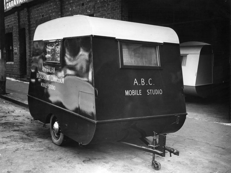 Caravan adapted as an ABC mobile studio to be used for concerts presented by the ABC at army camps and other locations. Equipped with a recording unit and recording and pick-up amplifiers. Could also provide accommodation for one person.